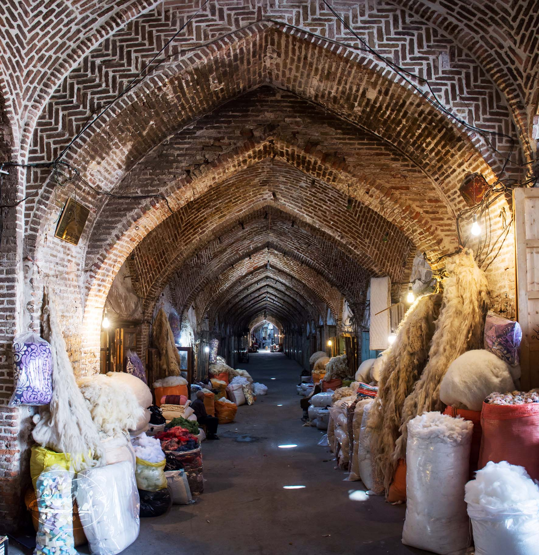 "Gan" means Wide in Turkish language; The Grand Bazaar of Tabriz is worlds biggest in its kind, it has a large effect in economy and culture of Iranian people.